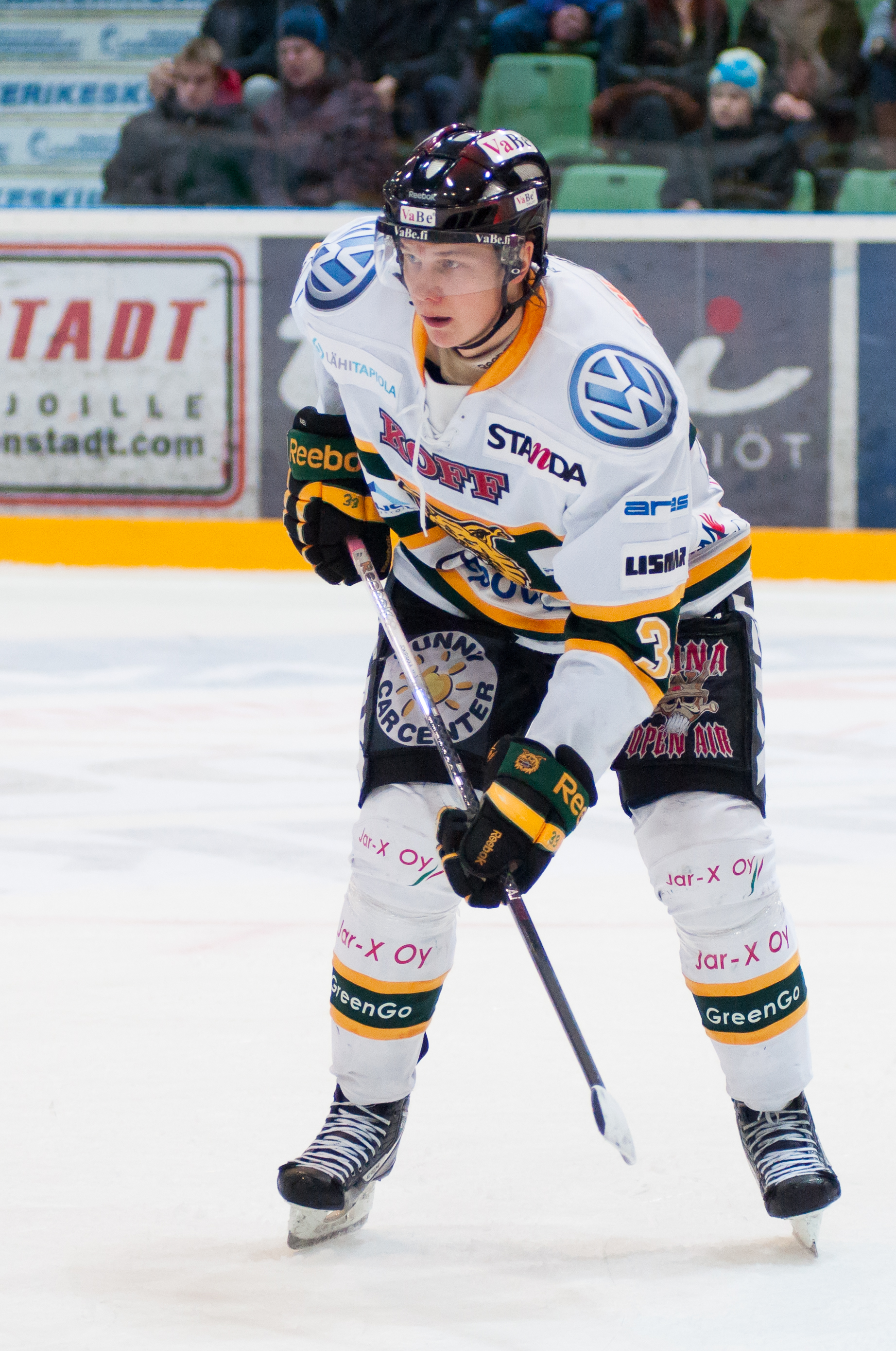 Finnish ice hockey defenseman Jyrki Jokipakka playing for Tampereen Ilves in Lappeenranta, Finland.